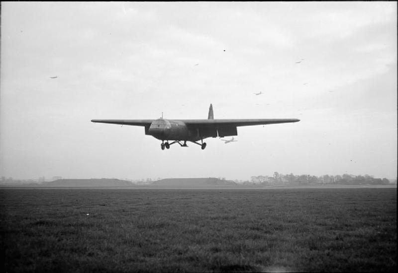 Royal Air Force- Headquarters Allied Expeditionary Air Force, No. 38 Group RAF. Airspeed Horsa Mark Is coming in to land at an airfield during Exercise MUSH.